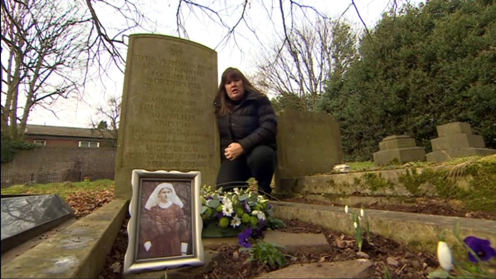 Ellen Isabel Jones' resting place being visited on 8 Feb 2018, the Centenary Day of Women's Suffrage.